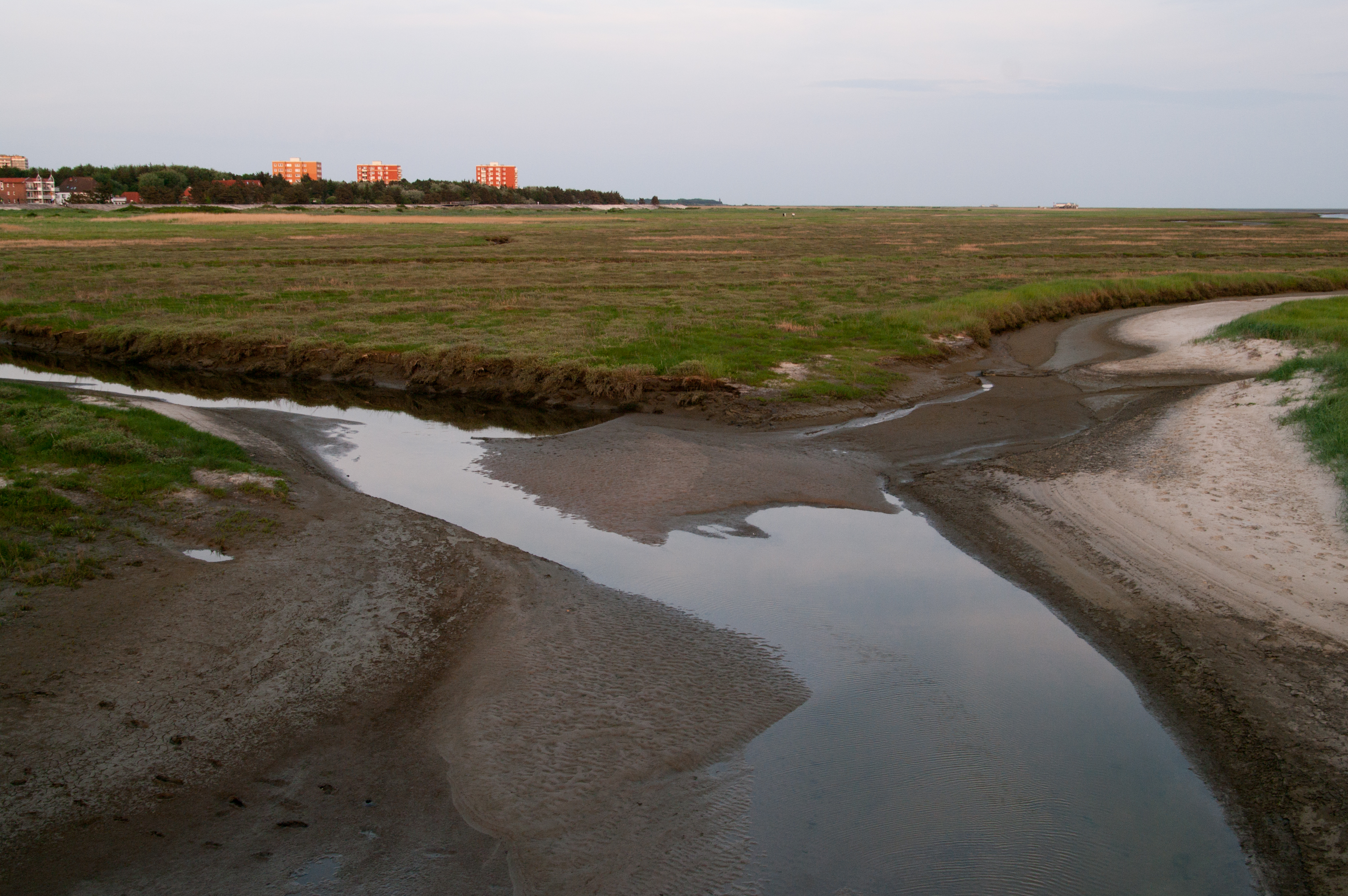 Tidal creek flowing through the saltmarshes in Sankt Peter.Ording, Germany. In the background three high-rises containing holiday apartments.